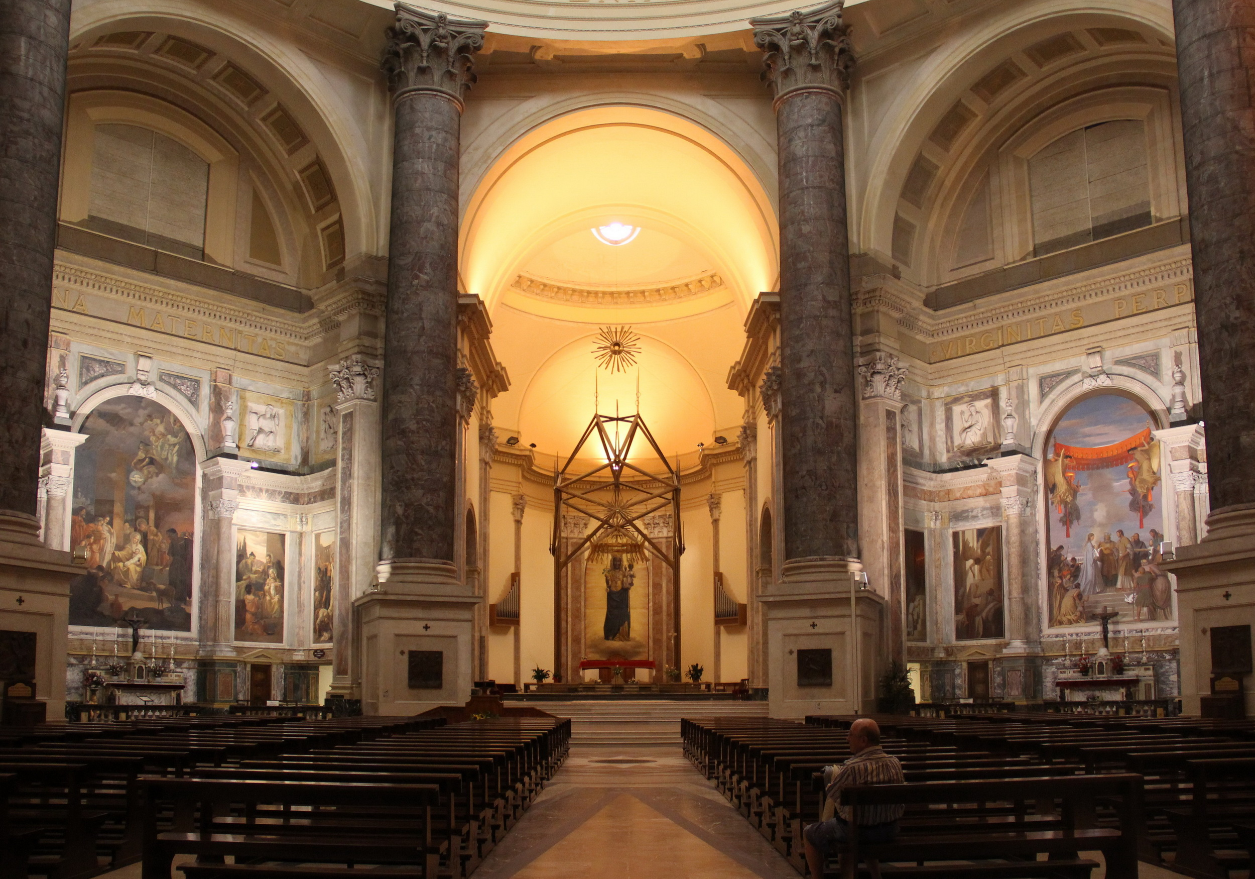 Chiesa Nuova, Santuario di Oropa, Biella, Piedmont, Italy Sacro Monte di Oropa Native nameSacro Monte di OropaParent institutionSacri Monti of Piedmont and LombardyLocationBiella, Piedmont, ItalyCoordinates45° 37′ 28.61″ N, 7° 58′ 52.76″ E Authority control : Q384966 VIAF: 315122112 UNESCO: 1068-005 institution QS:P195,Q384966